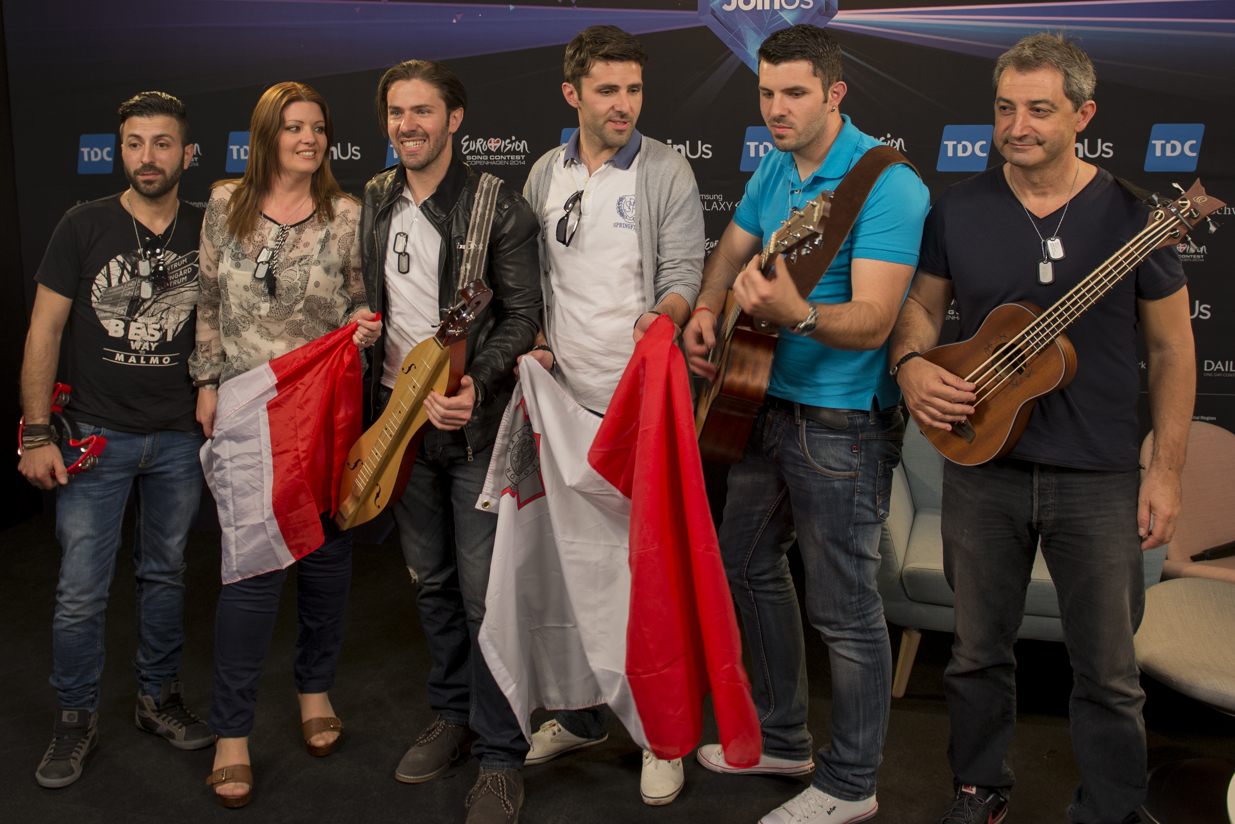 Firelight during a Meet & Greet at the Eurovision Song Contest 2014.